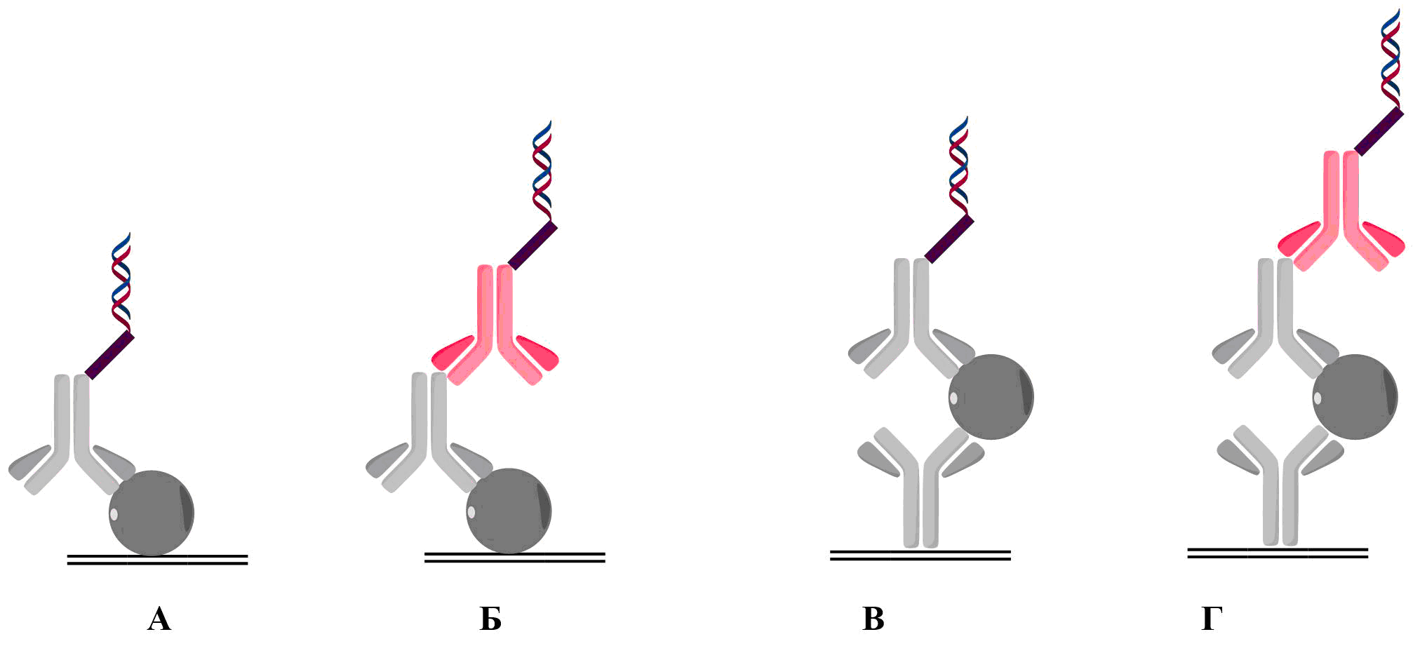 Immuno-PCR formats